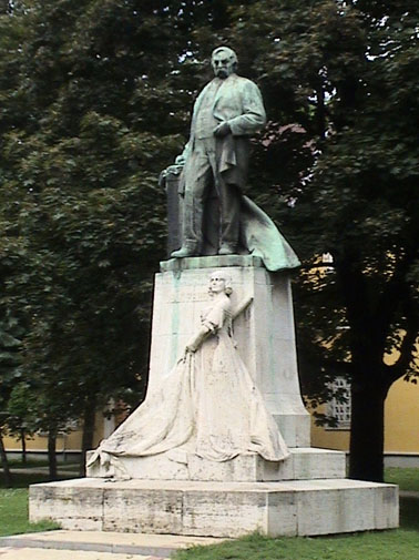 Statue – Ferenc Deák (1803–1876), hungarian politician. Sculptor: Aladár Gárdos. Miskolc, Hungary